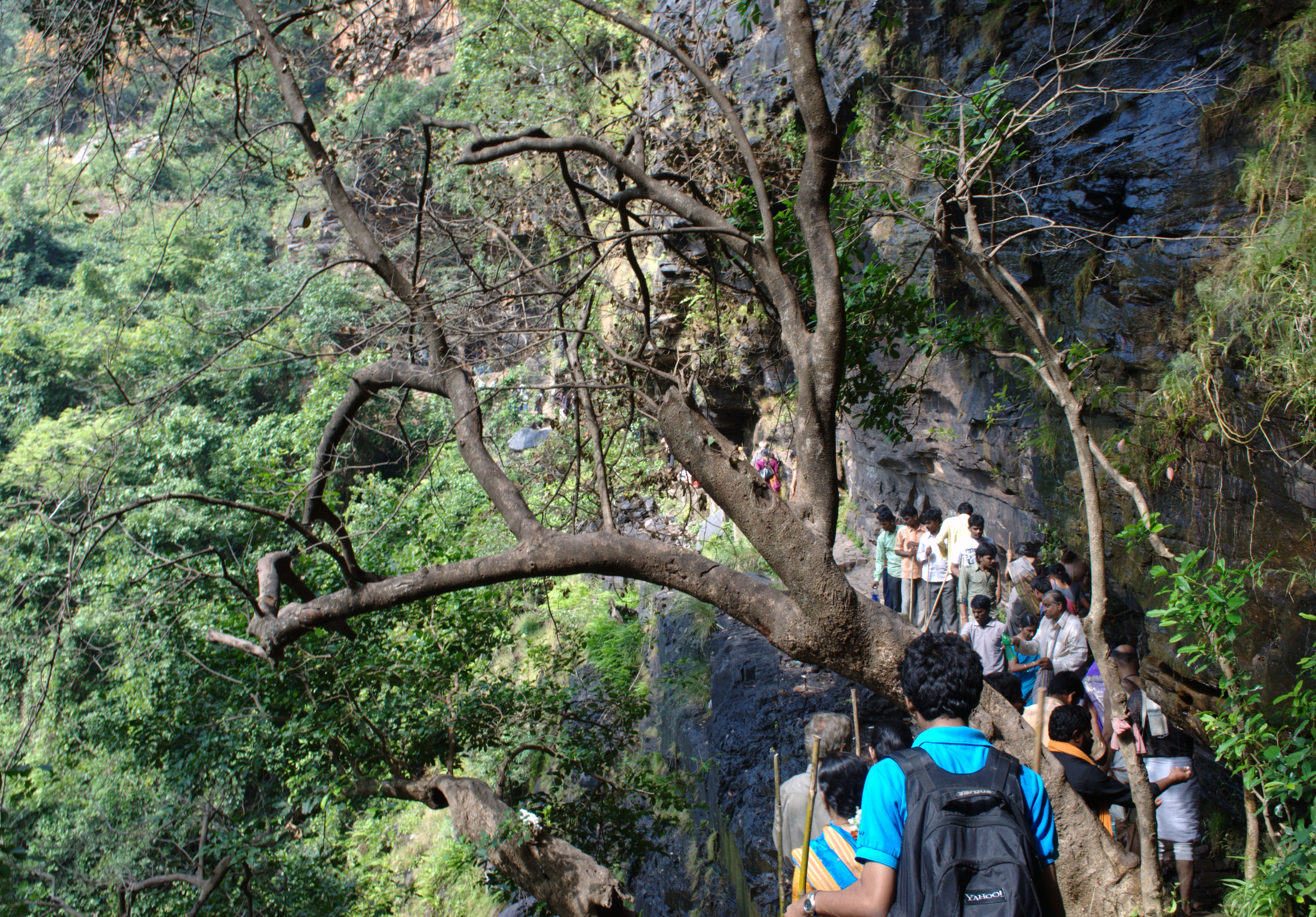 Trek to Ugra stambham at Ahobilam, Kurnool district